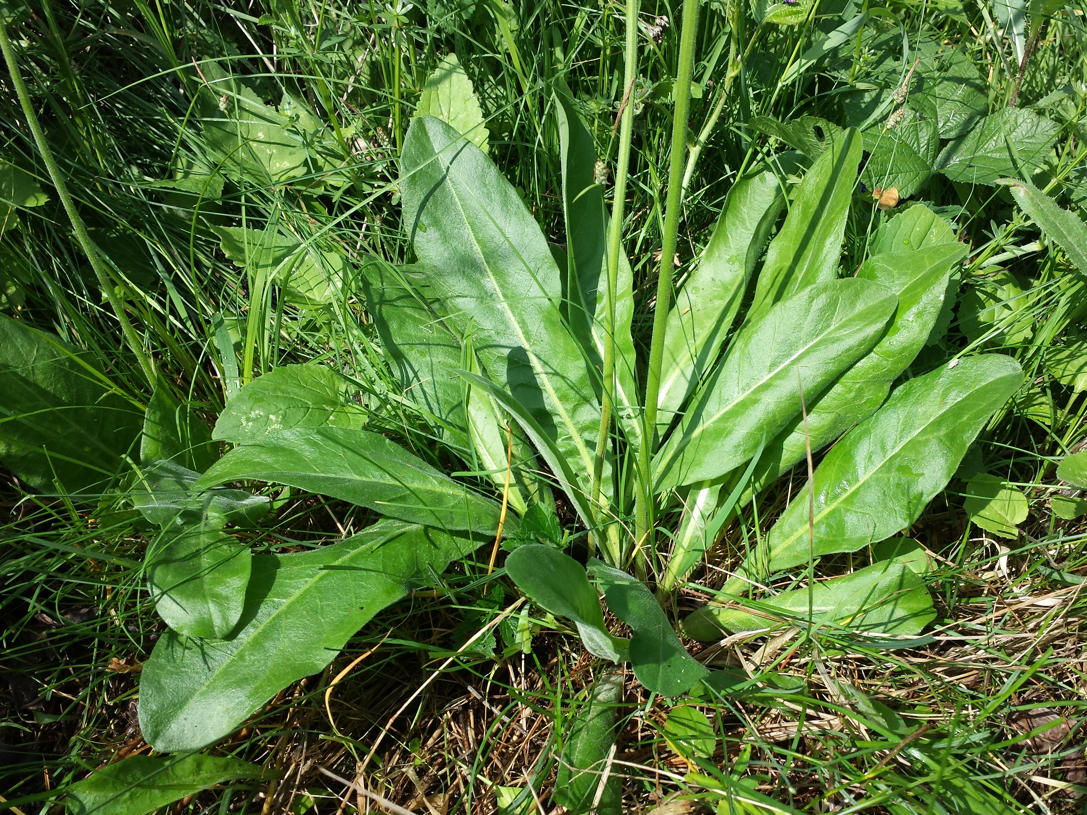 Rosette-leaves Taxonym: Crepis praemorsa ss Fischer et al. EfÖLS 2008 ISBN 978-3-85474-187-9 Location: semi-dry grassland to the Northeast of Herzogbirbaum, district Korneuburg, Lower Austria - ca. 250 m a.s.l. Habitat: semi-dry grassland